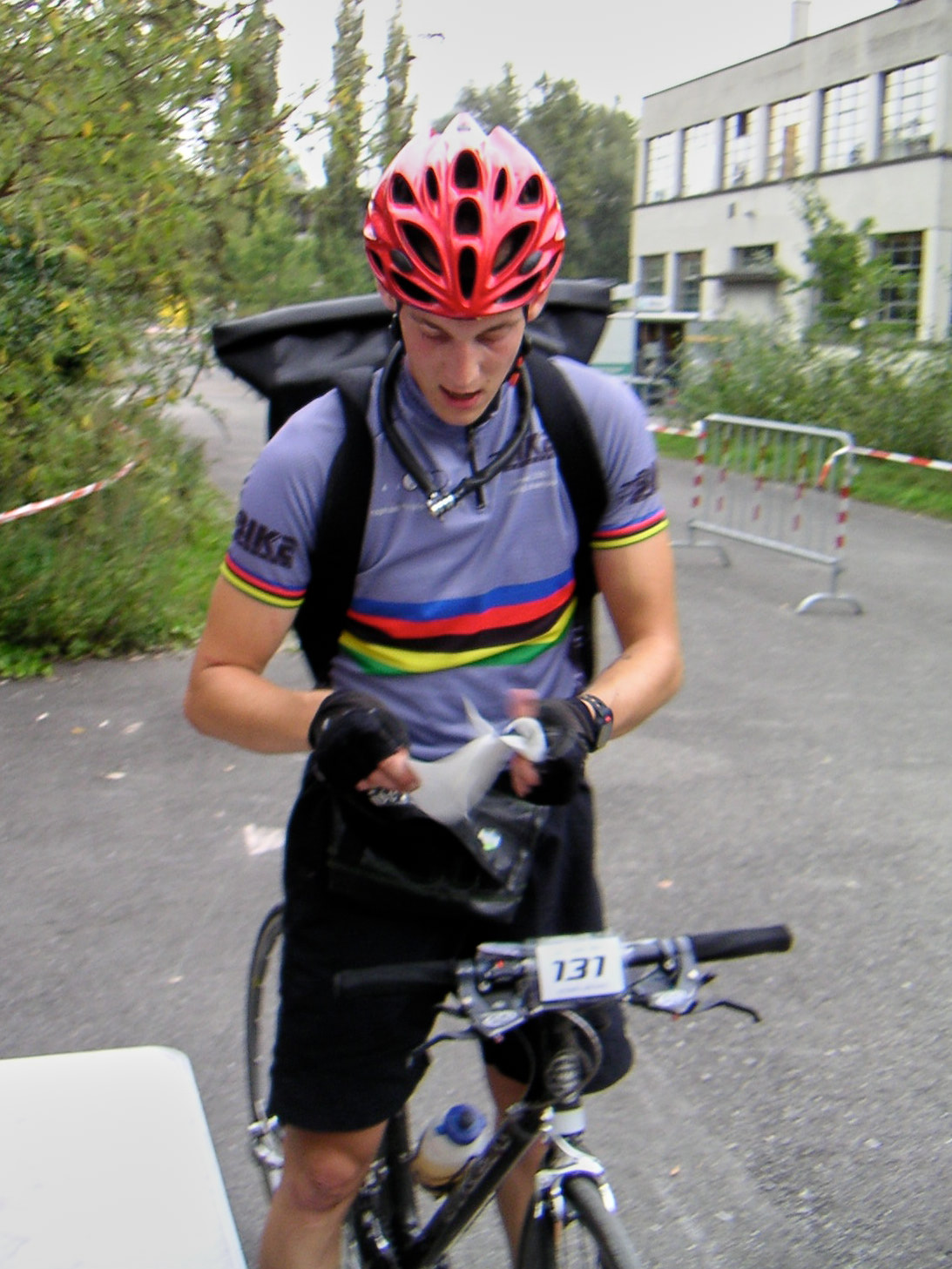 Raphael Faiss (winner of the Cycle Messenger World Championships (CMWC) 2003, 2004 and 2006) competing for the Swiss Cycle Messenger Championships (SuiCMC) in 2004 in Bern. The picture shows him at a checkpoint during the main race.